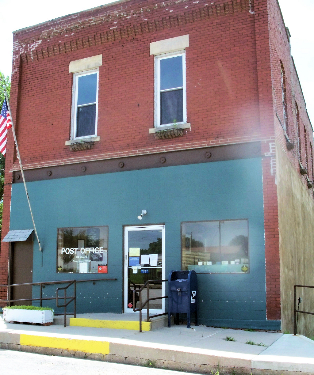 Coin, Iowa post office